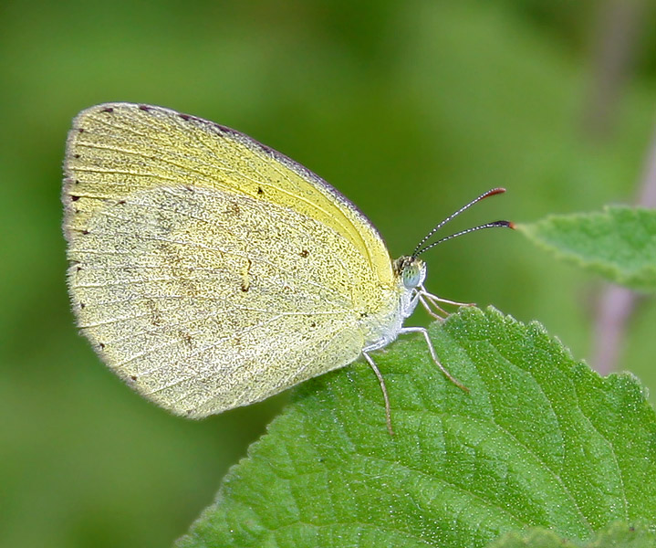 Small Grass Yellow Eurema brigitta in Hyderabad , India.